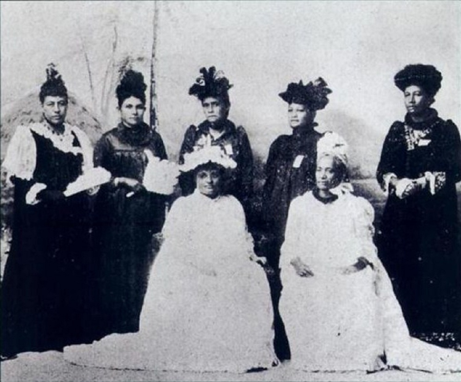 Hui Aloha ʻĀina o Na Wahine or the Hawaiian Patriotic League for Women, which petitioned against annexation. Among these women are Abigail Kuaihelani Campbell, Emma Nāwahi, Rebecca Kahalewai Cummins, Mary Ann Kaulalani Parker Stillman, Jessie Kapaihi Kaae, Hattie K. Hiram, Laura Kekupuwolui Mahelona.[1] Caption title. "Na lākou i lawe ka palapala kūʻē hoʻohuiʻāina a nā wahine ia J.H. Blount" Notes by Noenoe K. Silva. "This photo is from the Library of Congress and was printed inside Ka buke moolelo o Hon. Joseph K. Nawahi (Biography of Hon. Joseph K. Nāwahī), by J. G. M. Sheldon (Kahikina Kelekona), in 1908"--Notes. Included in the photograph are Abigail Kuaihelani Maipinepine Campbell and Emma ʻAʻima Nāwahī; other women pictured are unidentified.